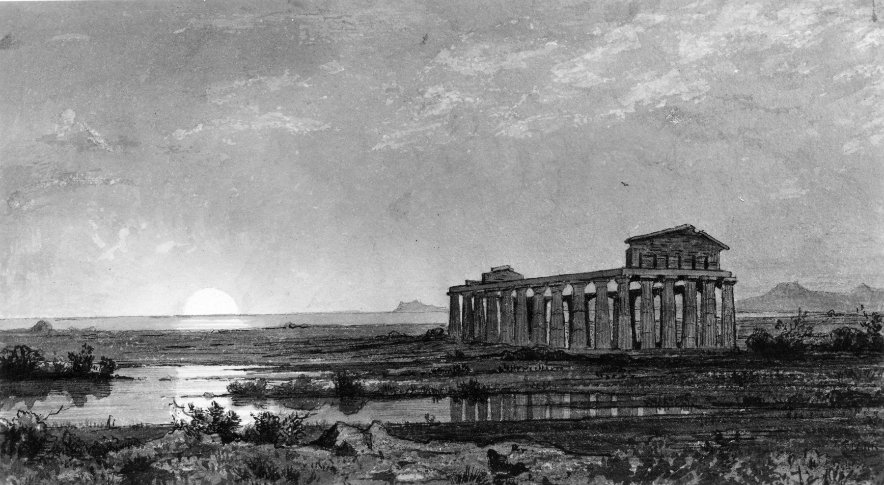 Haseltine, a Philadelphian, trained in Europe between 1856 and 1858. He first visited the south of Italy in 1858, and returned to Europe in 1866, eventually settling in Rome. The ancient city of Paestum, founded as Poseidonia or the city of Neptune by the Greeks, about 600 BC, was laid waste in the 11th century. During the 19th century, it began to attract tourists who came to marvel at its three, remarkably extant temples.